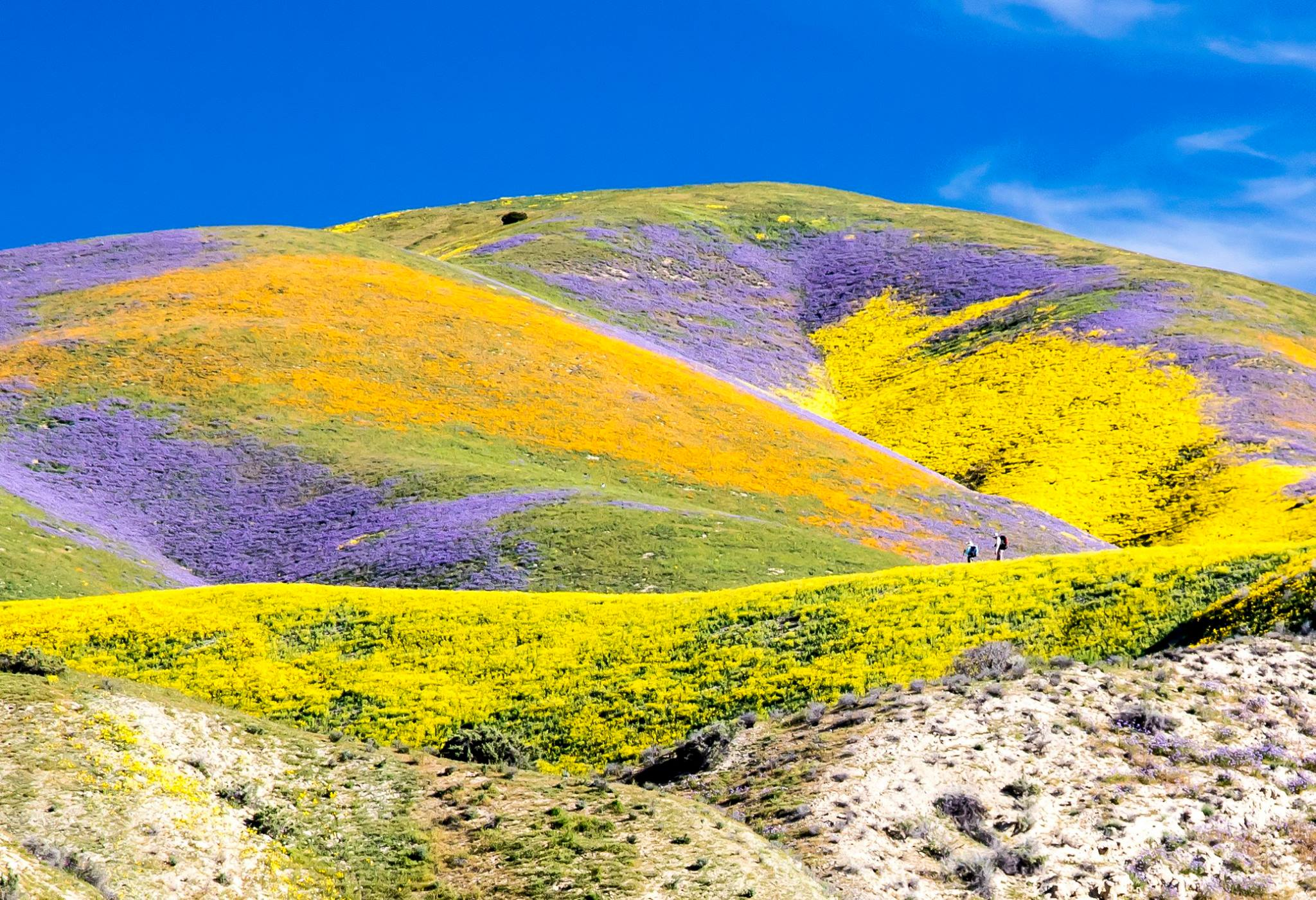 The superbloom has migrated north to California's Central Valley, and the show is simply indescribable at the Carrizo Plain National Monument. The Valley floor has endless expanses of yellows and purples from coreopsis, tidy tips and phacelia, with smaller patches of dozens of other species. Not to be outdone, the Temblor Range is painted with swaths of wildlflowers in oranges yellow and purple like something out of a storybook. Visitors are flocking to the area to see this explosion of color, and travelers should be prepared with a full tank of gas as there are no services in the monument. Photo by Bob Wick, Bureau of Land Management - California. #trackthebloom